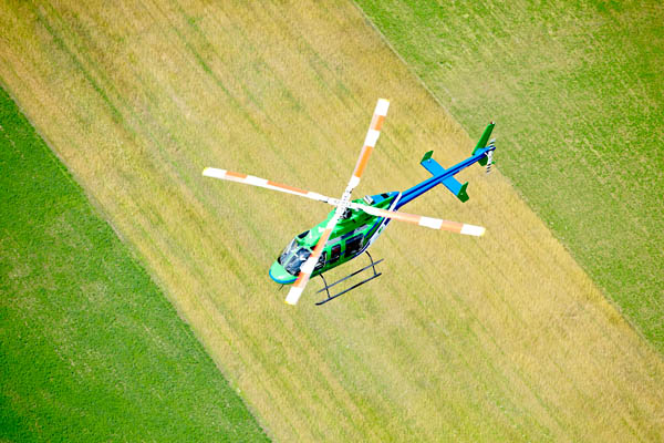 Aspirus MedEvac